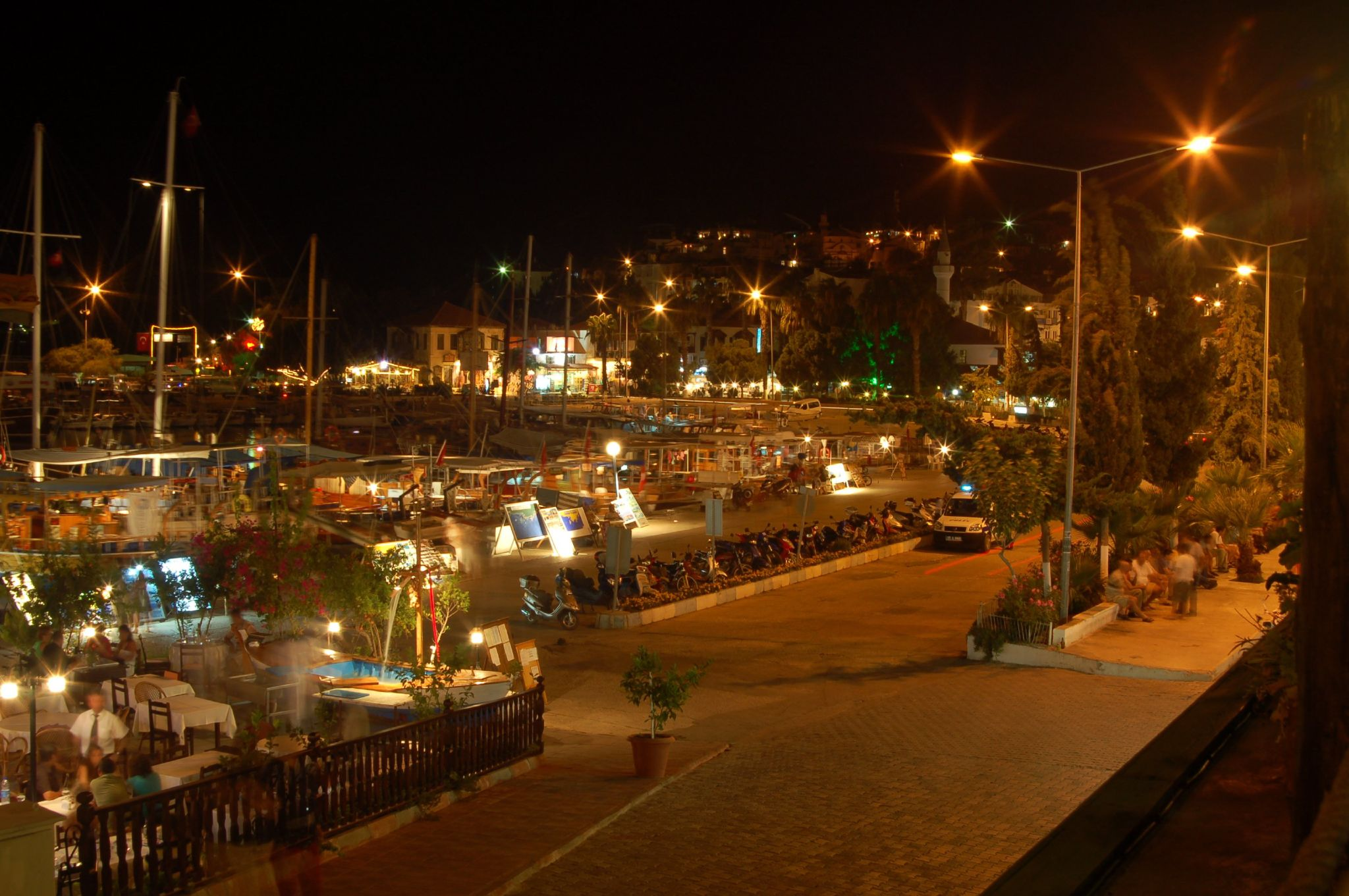 Kaş is a small fishing, yachting and tourist town, and a district of Antalya Province of Turkey